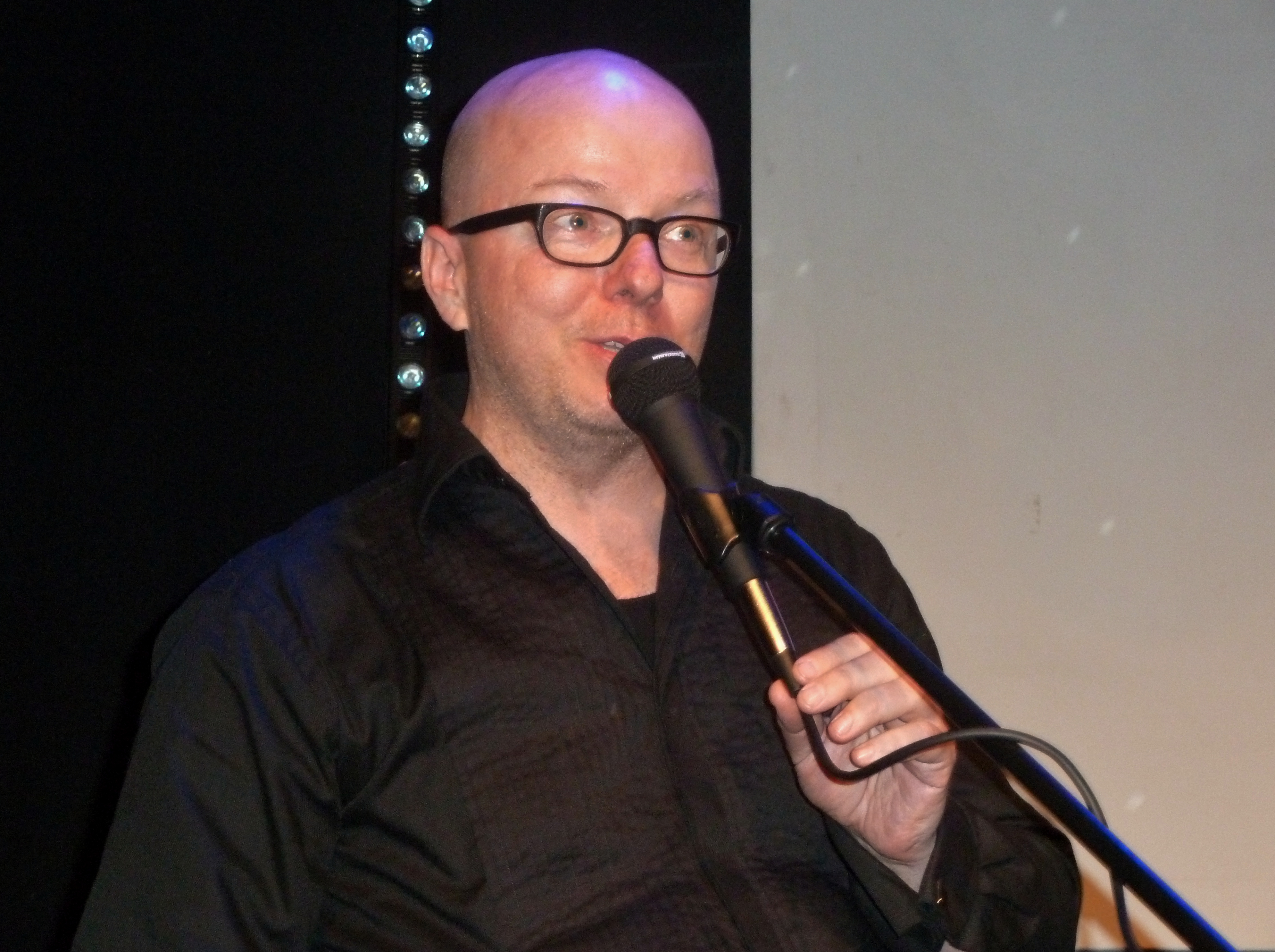 German actor and voice artist Oliver Rohrbeck during a live performance in Cologne